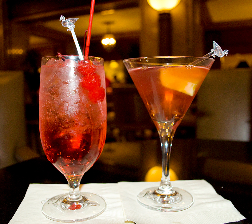 Cocktails: Shirley Temple and a Cosmo.